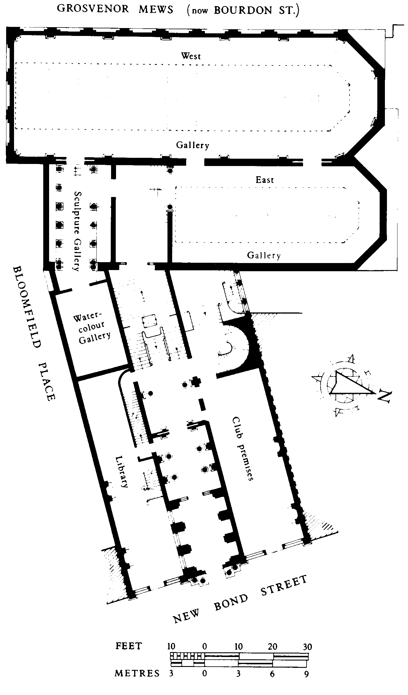 Scan of the Grosvenor Gallery plan